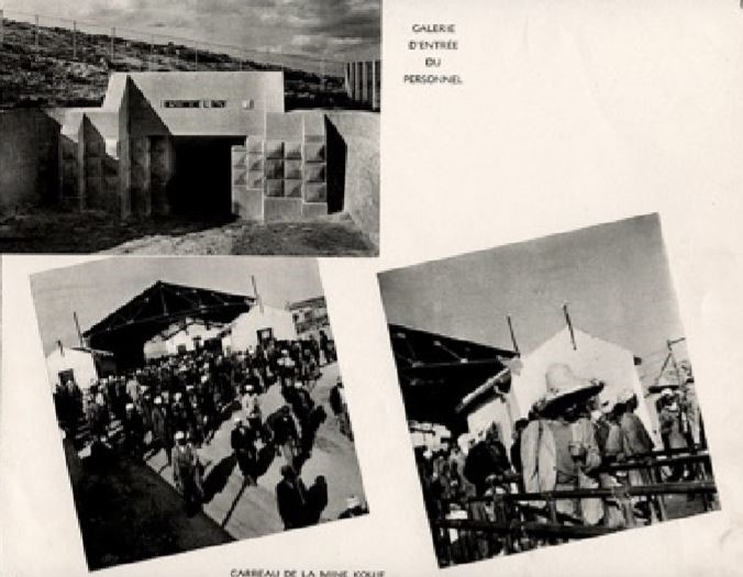 This photo showing all places in El-Kouf back in the year 1956. These are the photos given by my old family friend and am using it. These are the real photographed images consists of three places including gallery